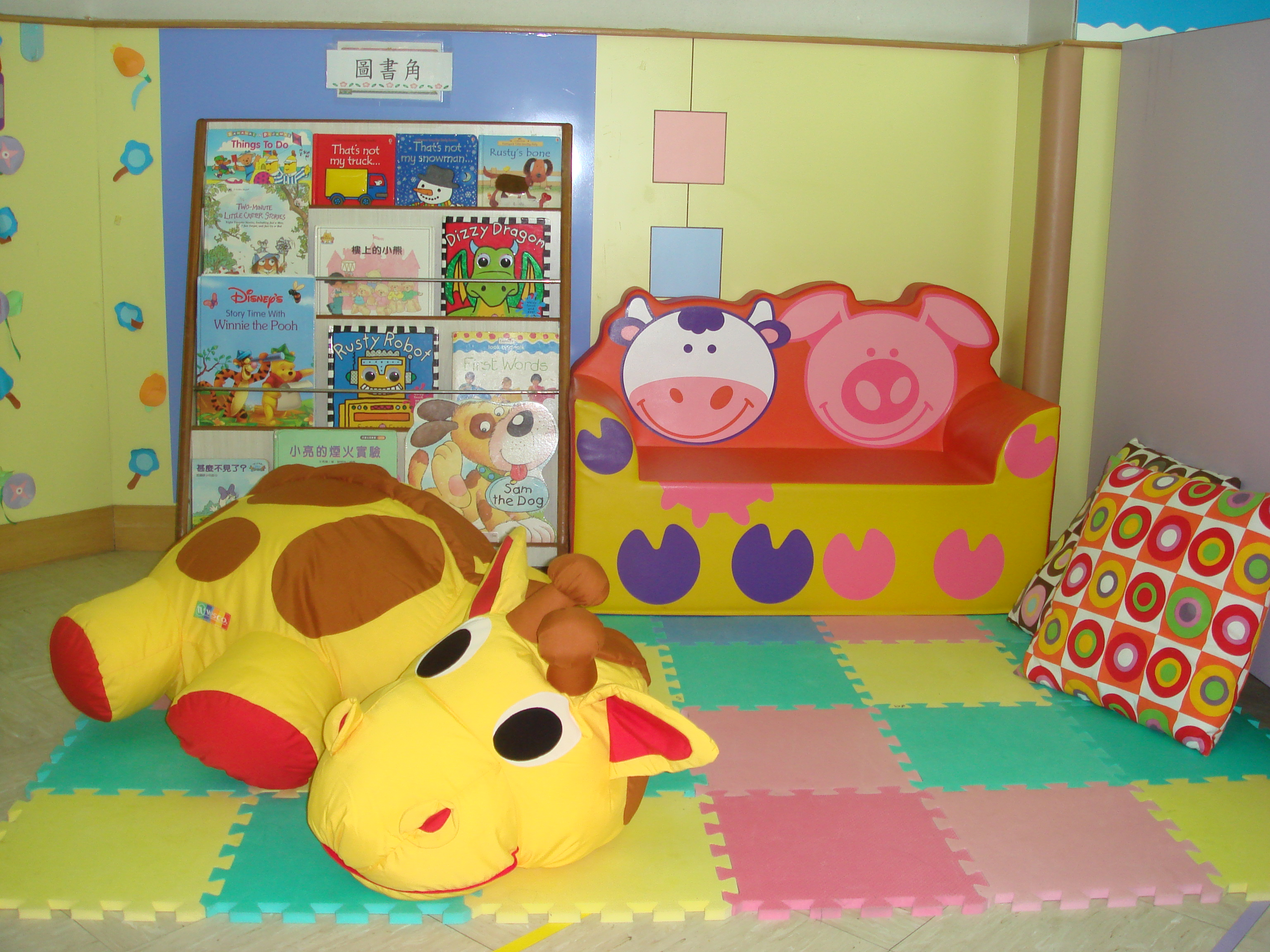 新航黃埔幼兒-學校環境.JPG